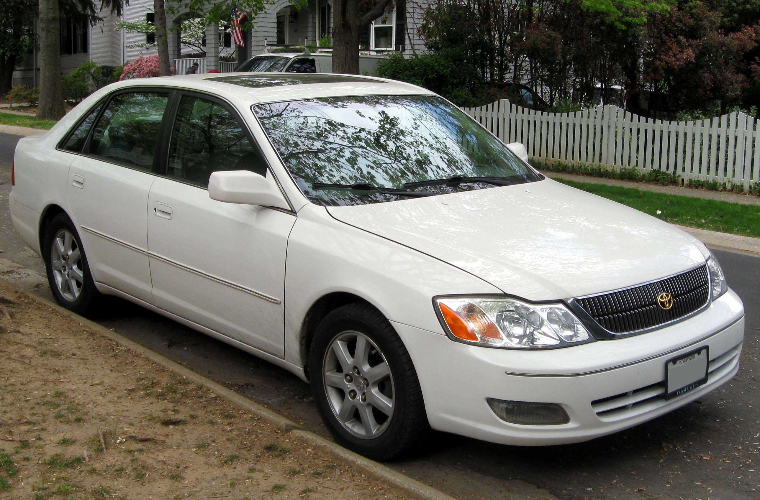 2000-2002 Toyota Avalon photographed in Chevy Chase, Maryland, USA.